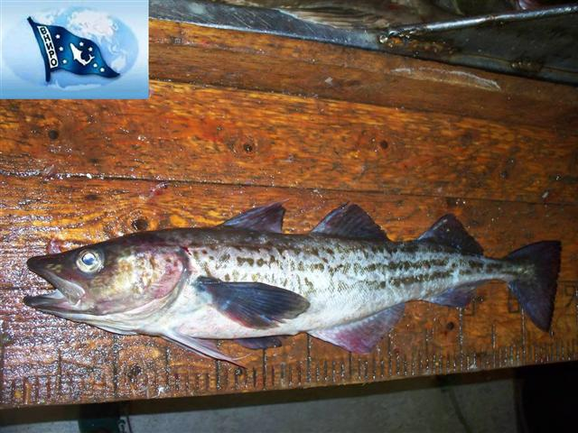 Male Theragra finnmarchica collected in Barents Sea, Russia, 71°N 42°E. 64 cm, 1,9 kg.